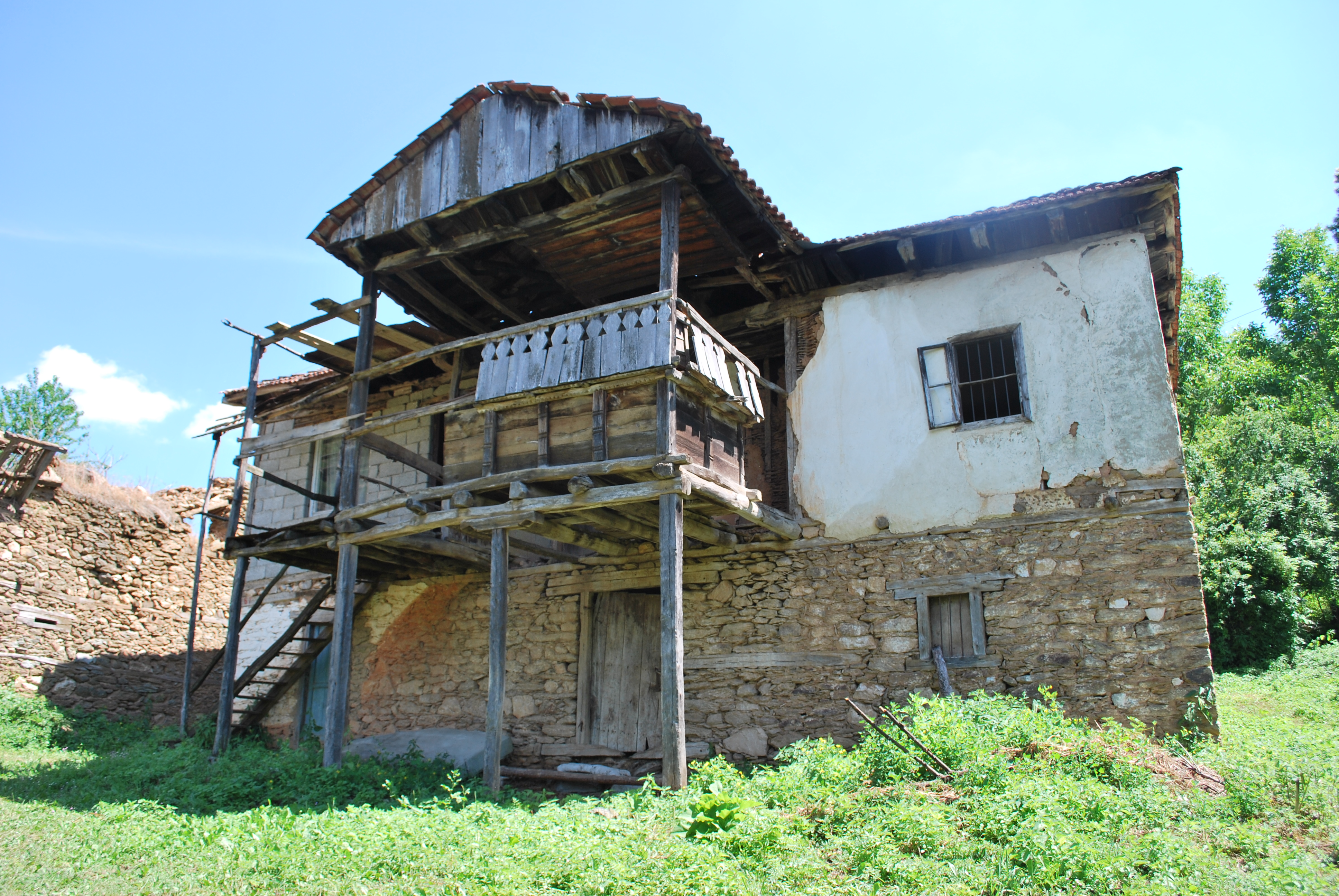 Železna Reka near Gostivar, Macedonia